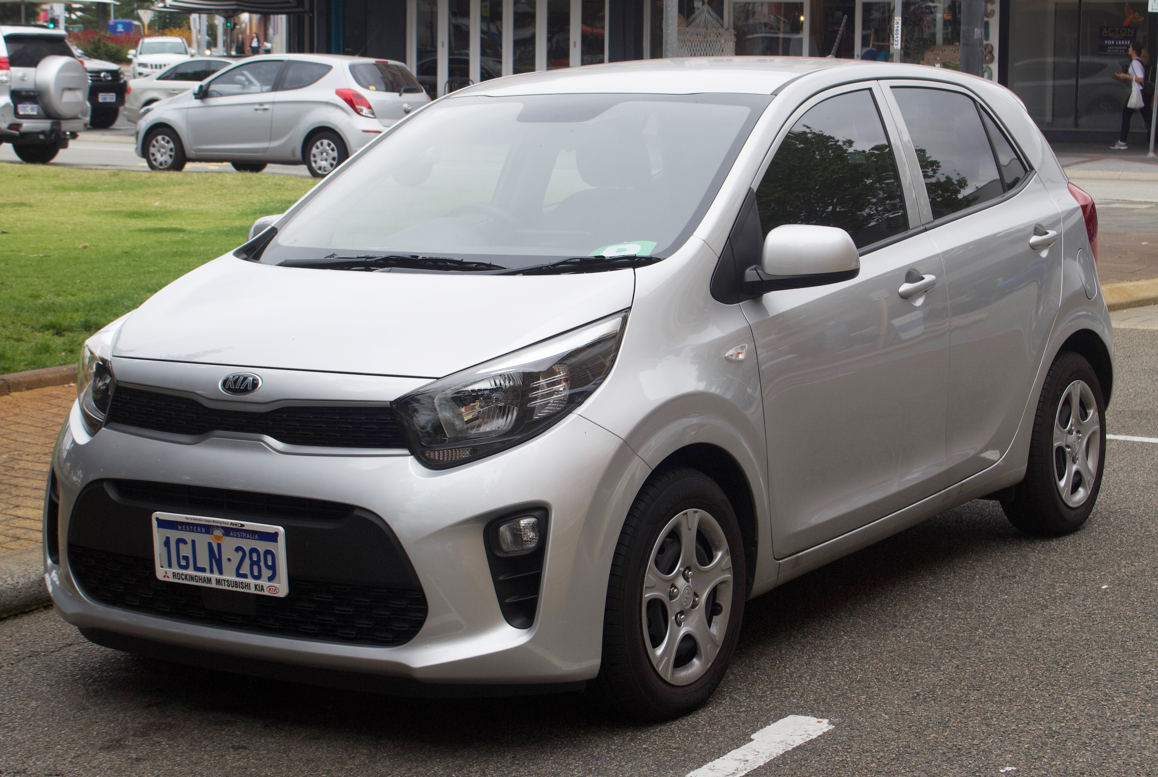 2018 Kia Picanto (JA MY19) S hatchback. Photographed in Fremantle, Western Australia, Australia.